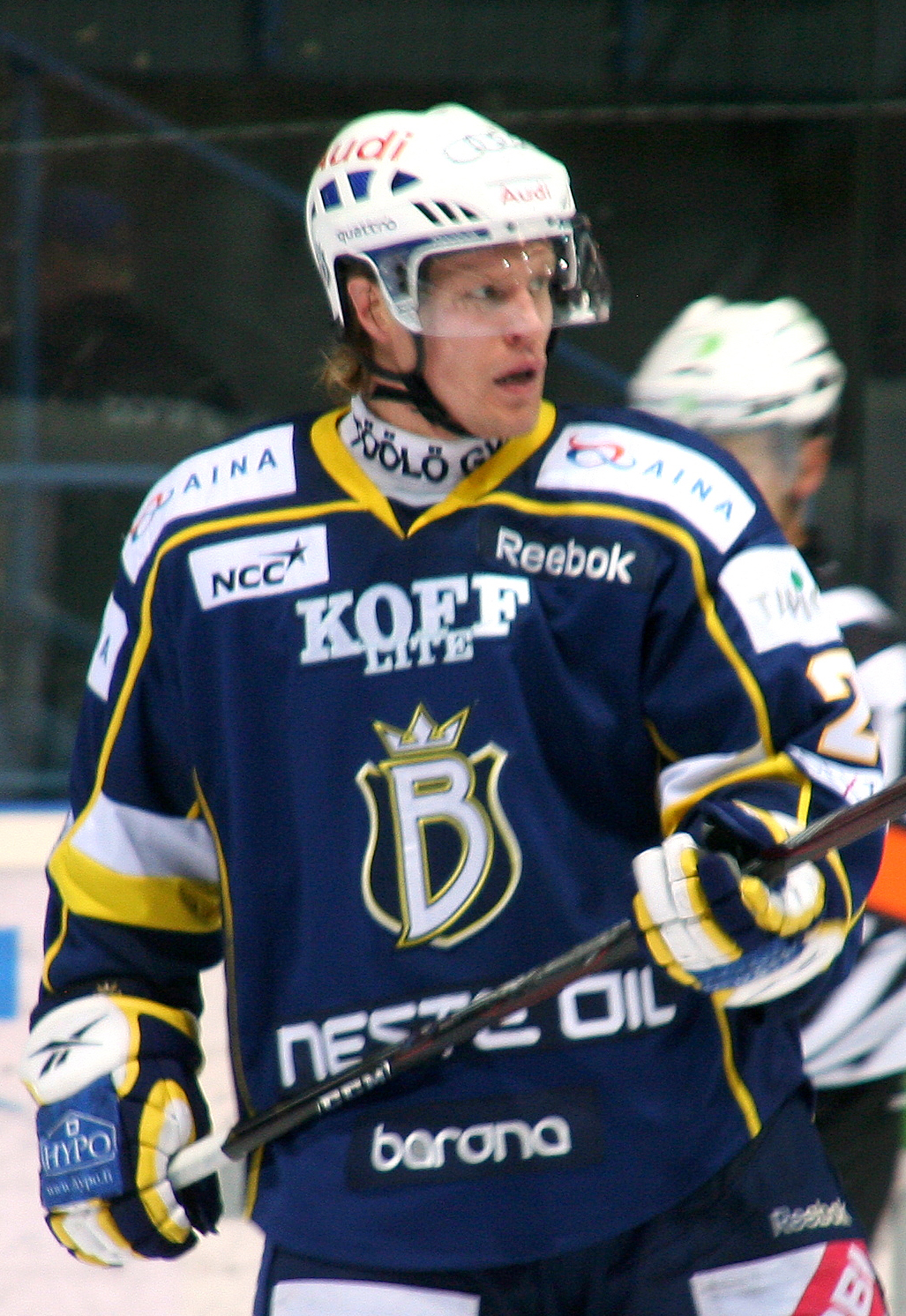 Ice Hockey Team Espoo Blues' Defender #2 Oskari Korpikari